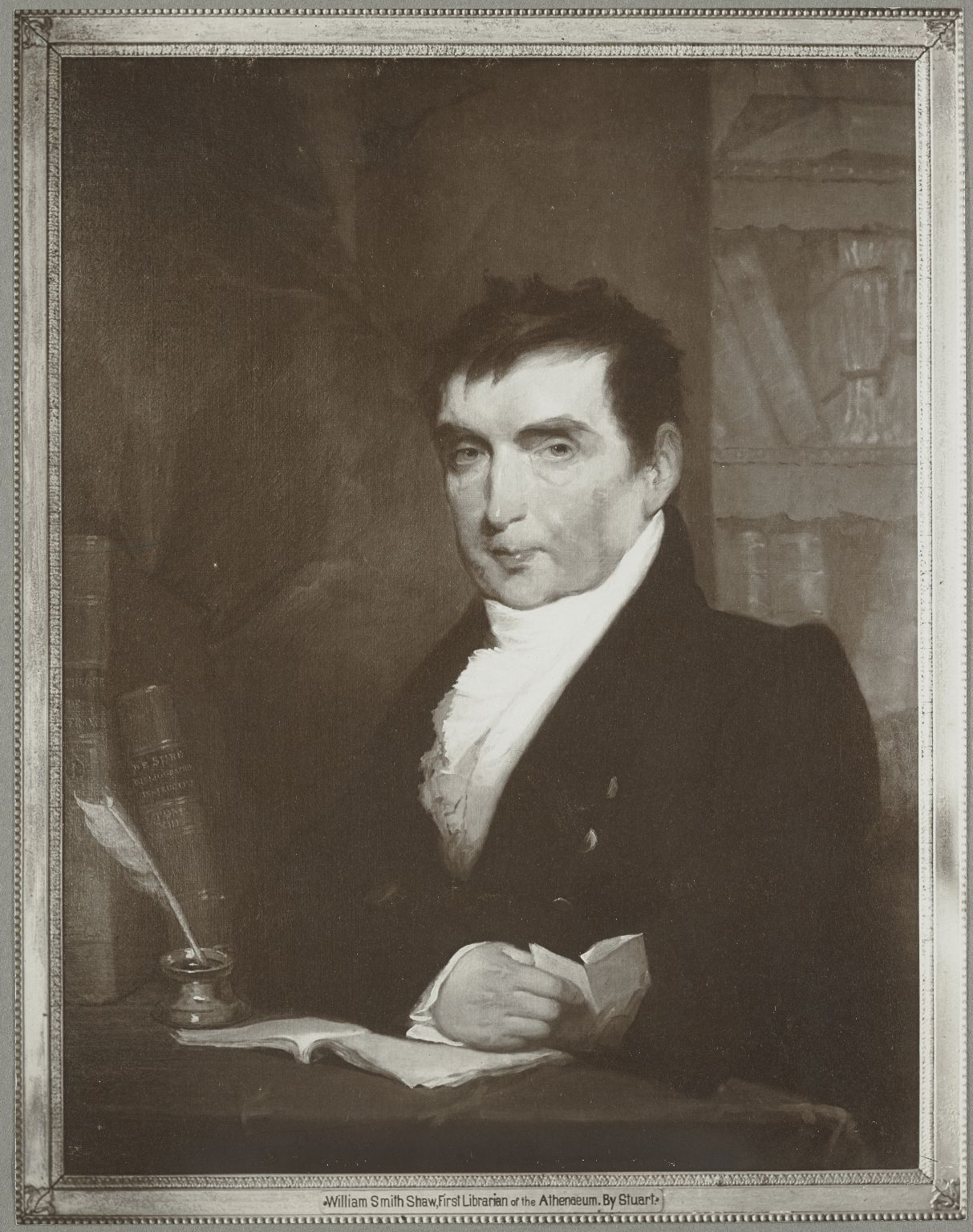 Boston Athenaeum 1824 in Boston. Dimensions/Medium 35 5/8 x 27 1/2 in. oil on canvas.